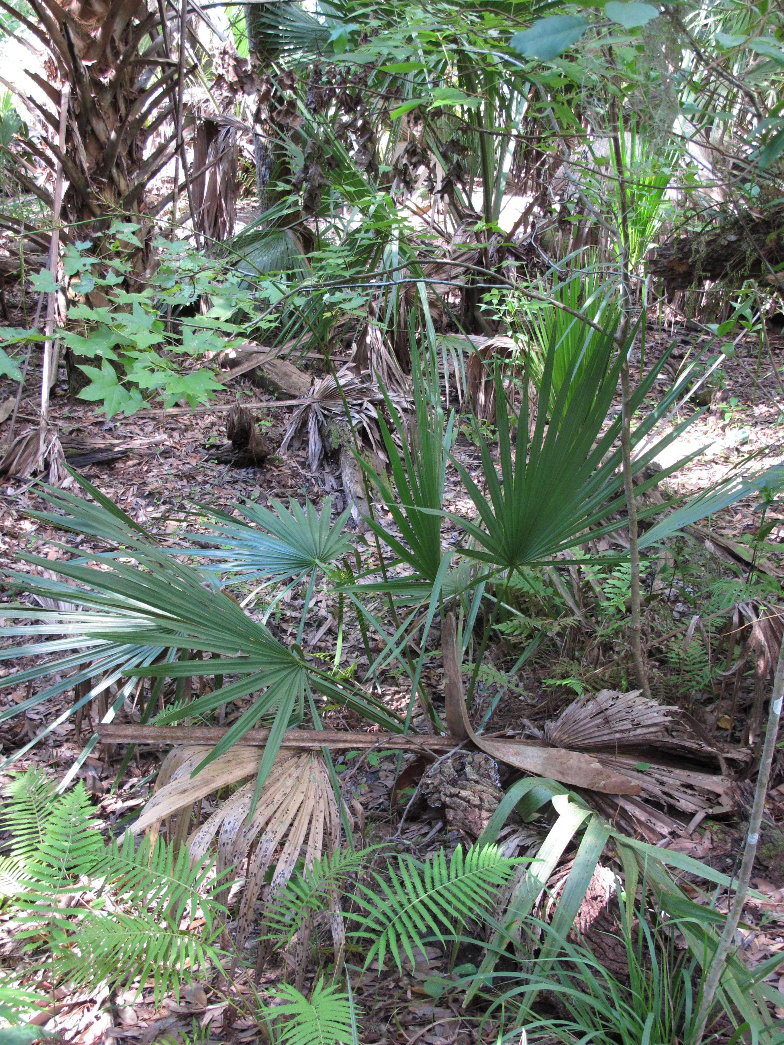 Highlands Hammock State Park, Highlands County, Florida, USA.